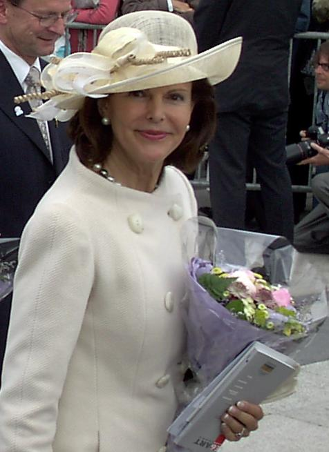 Queen Silvia of Sweden. Picture is taken in Oslo, june 15, 2005, during the 100- year celebration to the end of the Swedish - Norwegian union.